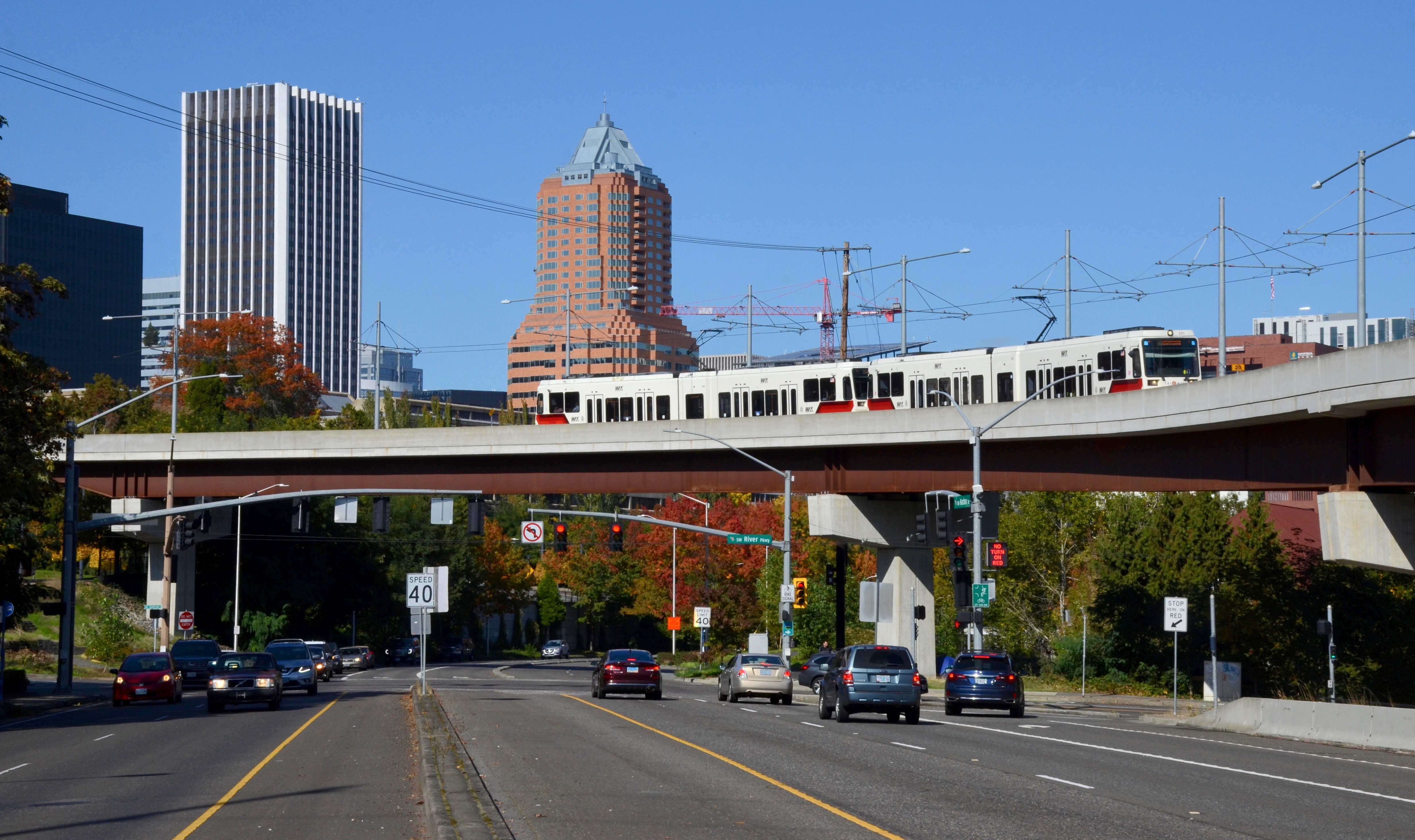 Looking north on SW Harbor Drive (in the southeasternmost part of downtown Portland), as a northbound train on the MAX Orange Line crosses the TriMet bus and light-rail viaduct over that street and River Parkway. The two LRVs (light rail vehicles) in this photo are both TriMet 'Type 2' cars (Siemens SD660). Visible in the background are two of downtown's tallest buildings: Wells Fargo Center and KOIN Center.